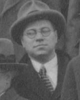 Heinz Prüfer, Mathematical Society Jena, visitors' conference at Abbeanum in Jena, 26th until 28th October 1930.